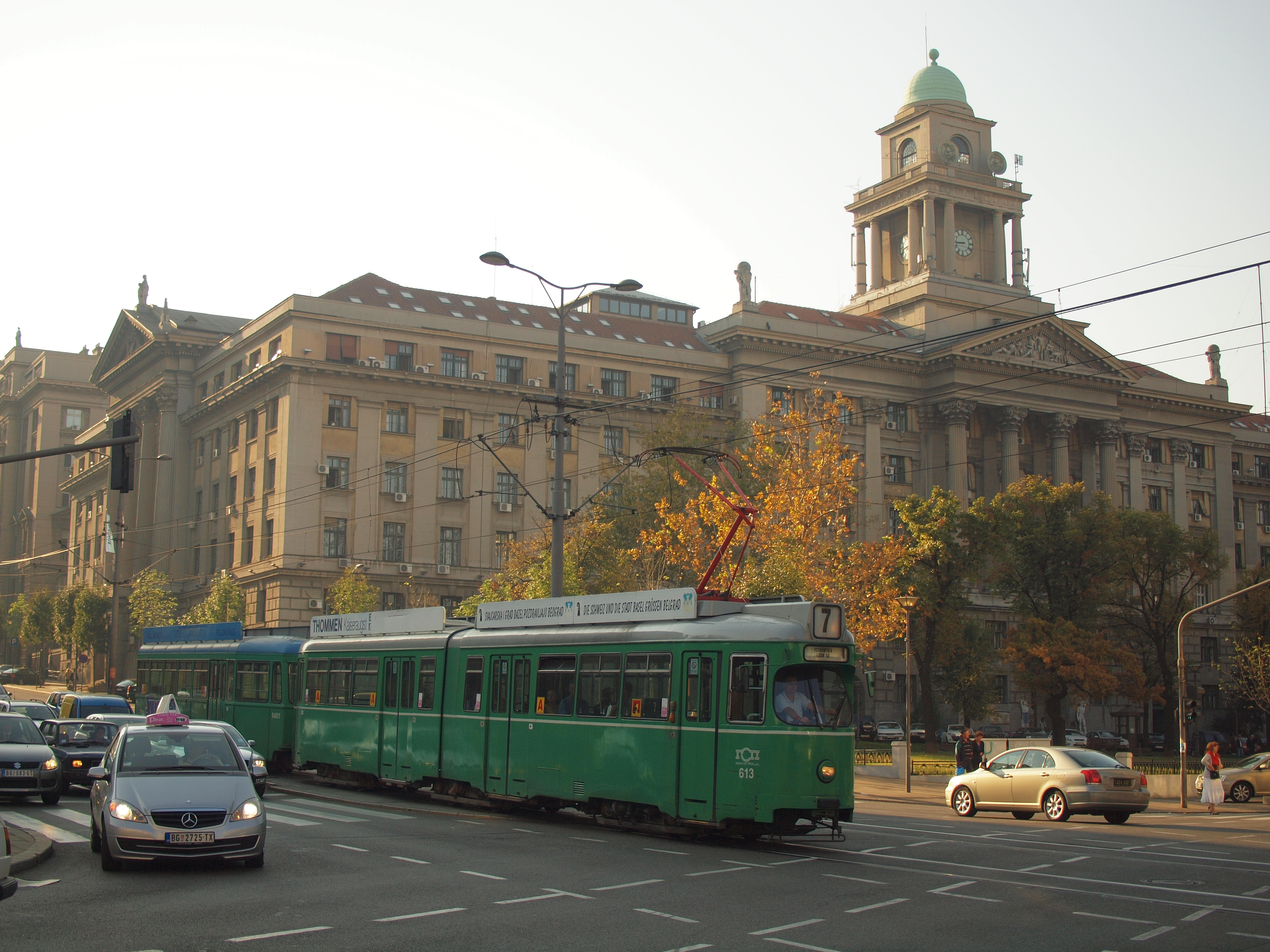 Former ministry of transportation todays headquarters of ZS